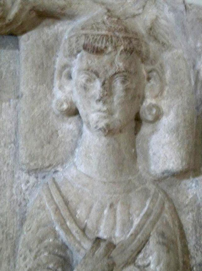 Sculpture of Prince Eric on his grave at Varnhem ChurchPlace: Axvall, Sweden